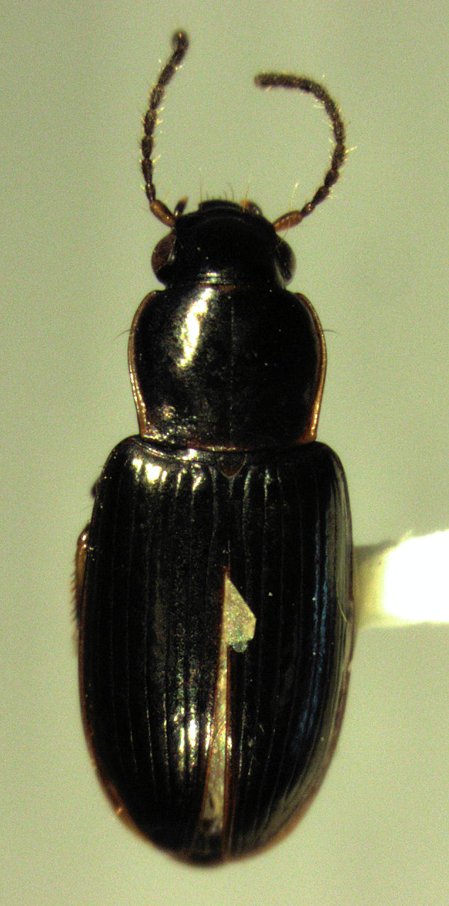 adult Euthenarus promptus, length about 5 mm